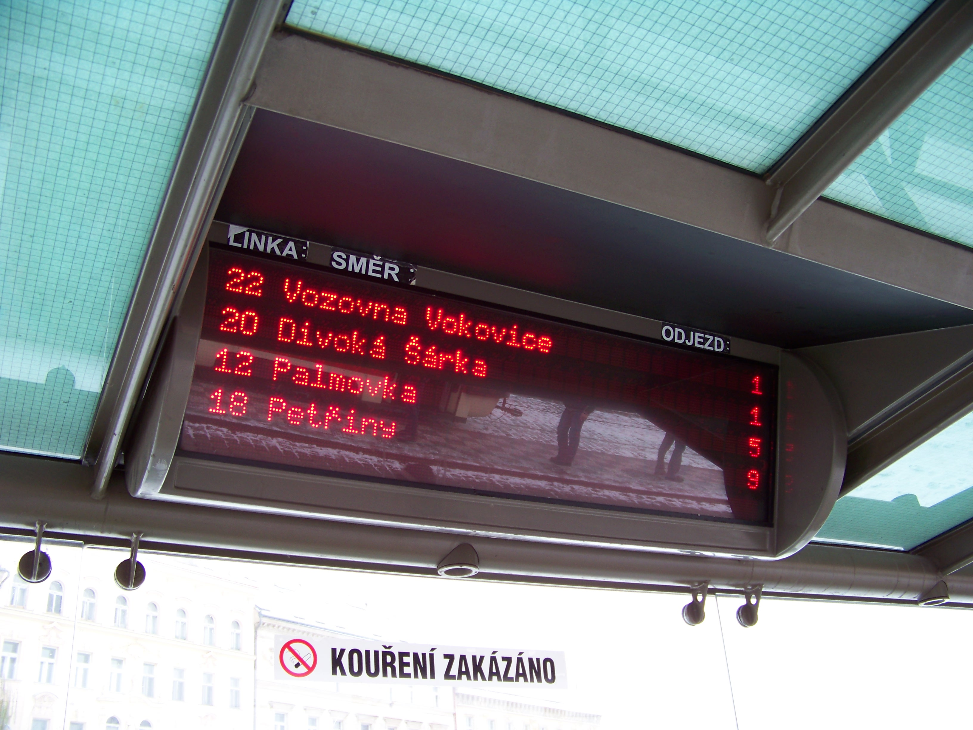 Malá Strana, Prague, the Czech Republic. Klárov, an infoboard at a tram stop "Malostranská".